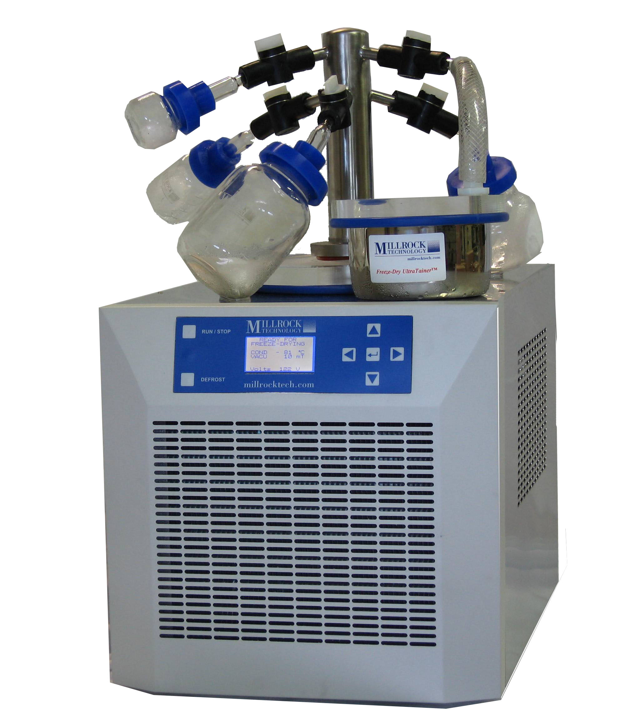 Benchtop freeze dryer